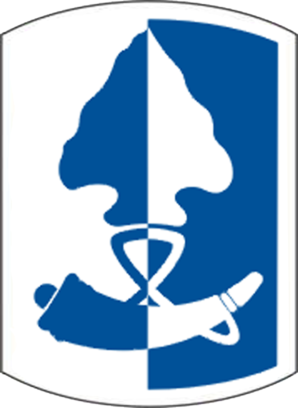 United States Army 187th Infanatry Brigade insignia. Made with Photoshop.